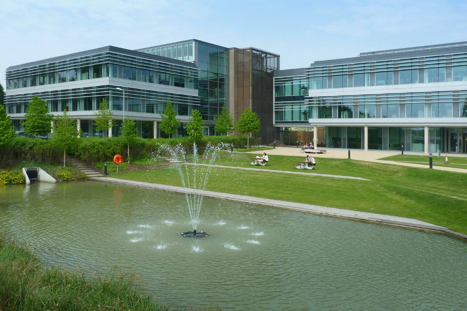 Cambridge Science Park new Napp Pharmaceutical Group buildings in April 2011.